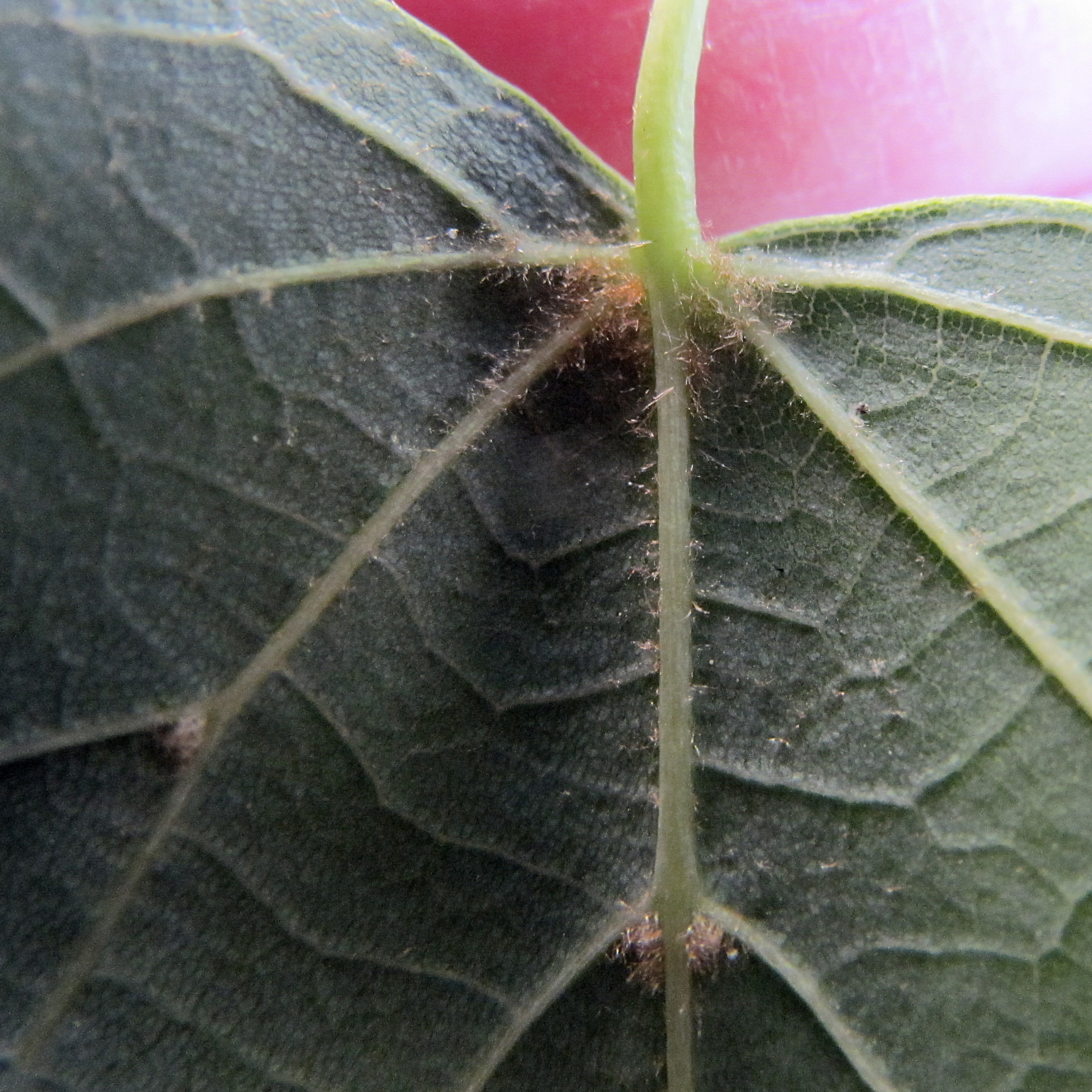 Tilia cordata leaf abaxial side